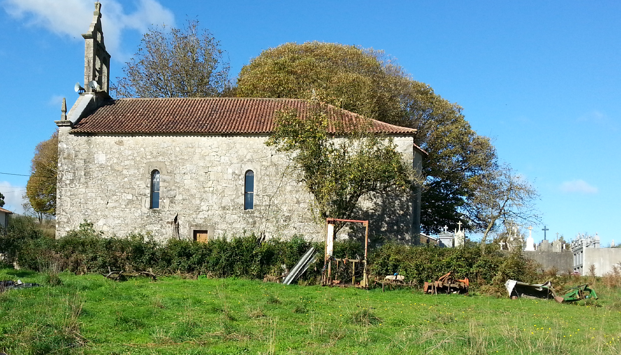 Church of Axulfe, San Pedro de Viana, Chantada